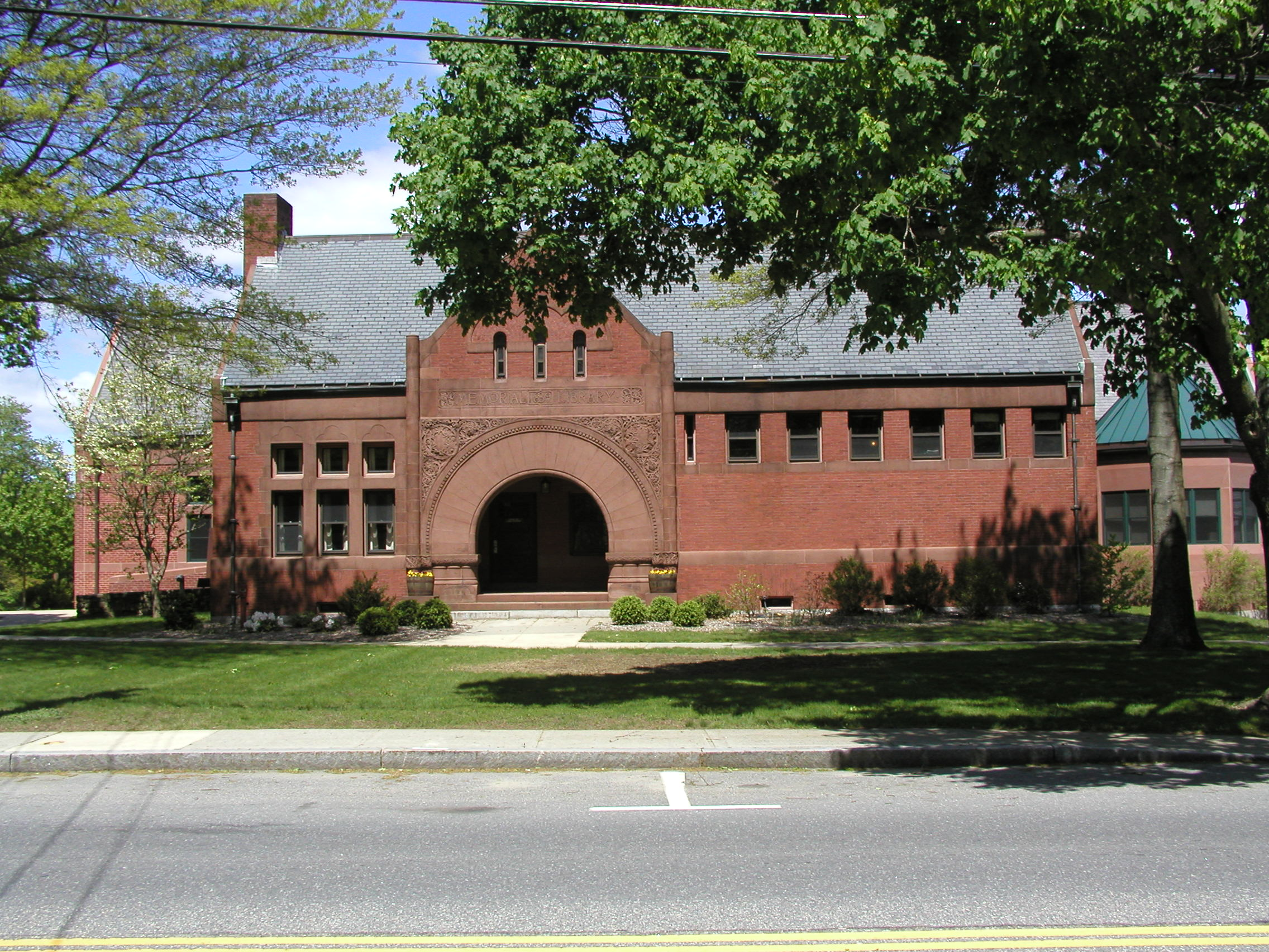 Acton Memorial Library this library is both parent and child friendly